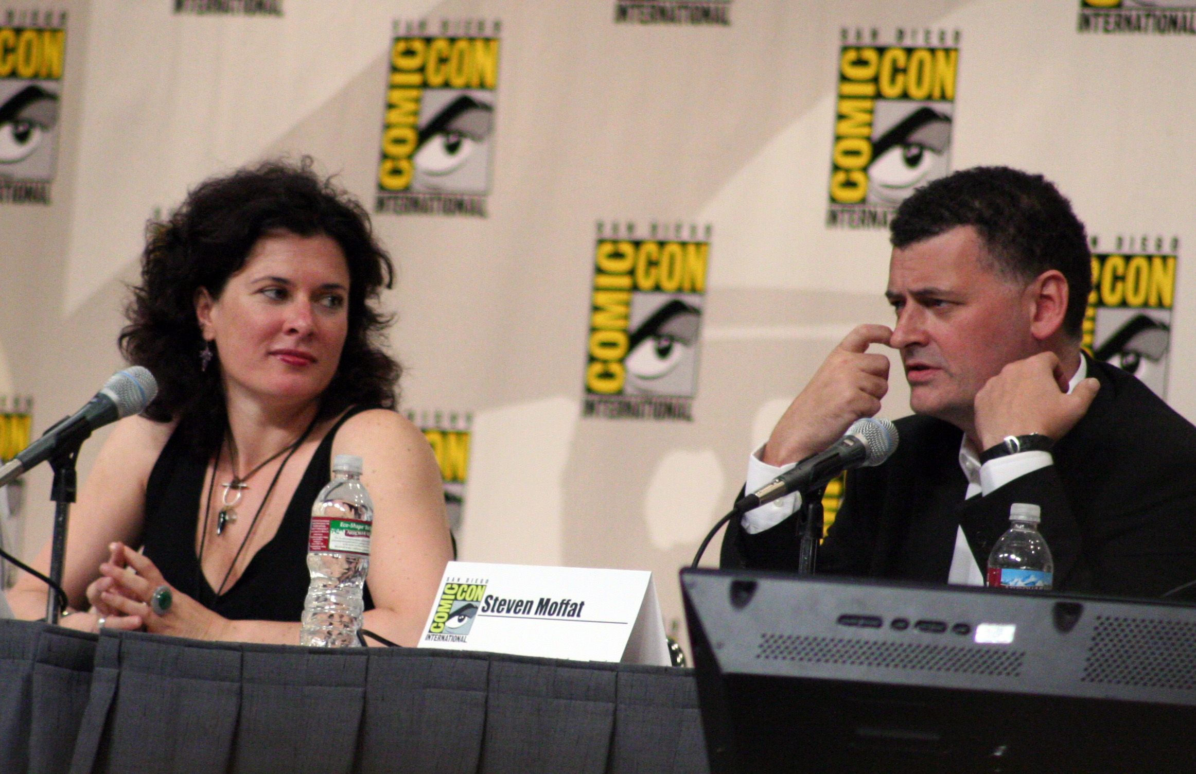 Julie Gardner, executive producer for Doctor Who, and Steven Moffat, writer, at Comic Con 2008.